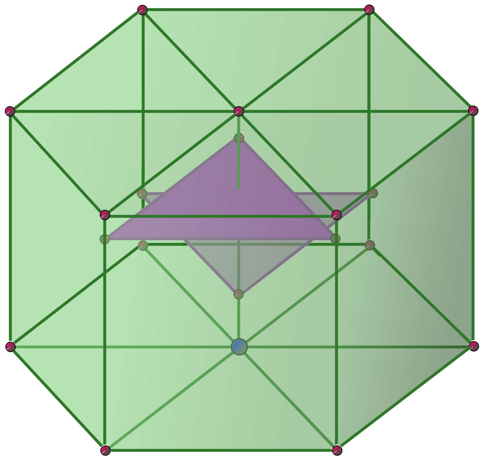 Hexagonal crystal structure